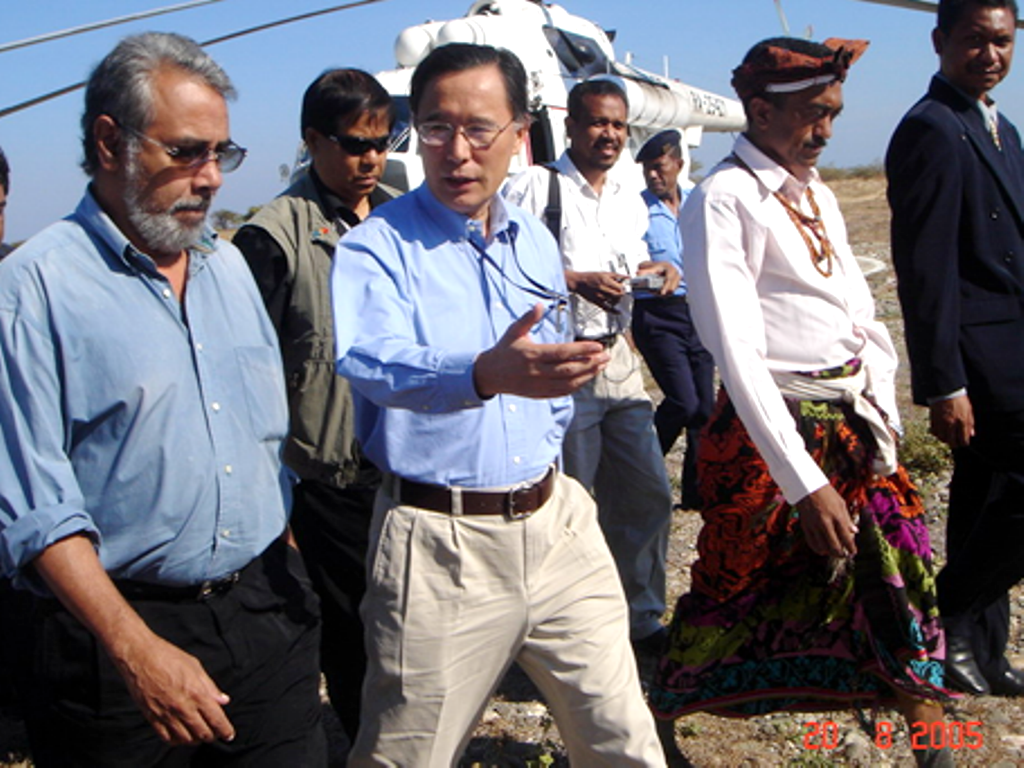 Sukehiro Hasegawa with Xanana Gusmao in Timor-Leste in 2005